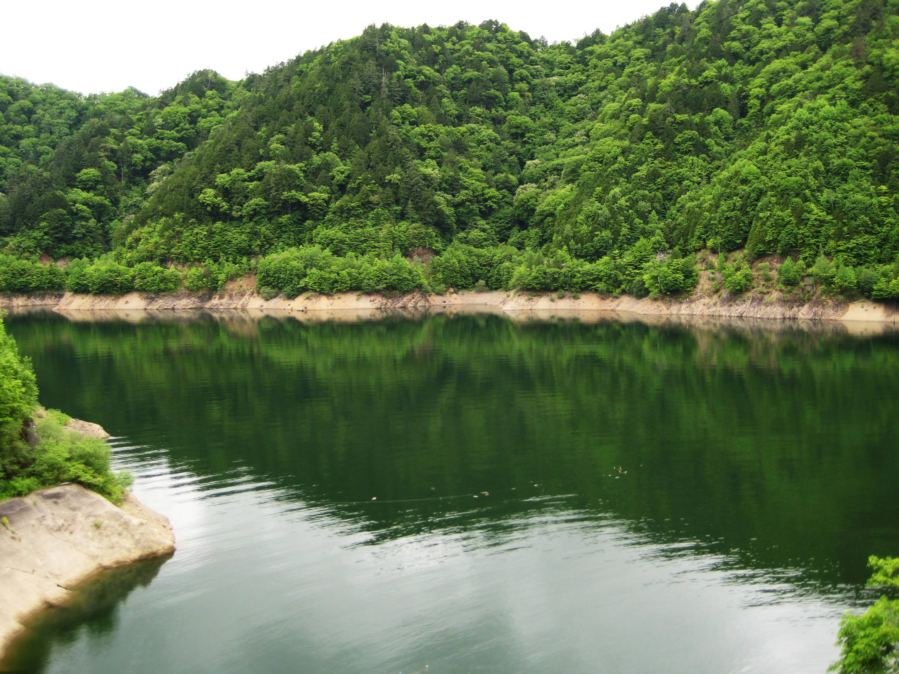 Takane I Dam.